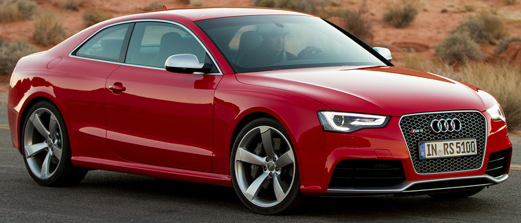 I went up to Elephant Rock in the Valley of Fire to capture the sunset. Unfortunately Audi was shooting a commercial and the state police had the path blocked off. As a matter of protest, I took a picture of their car. =P.